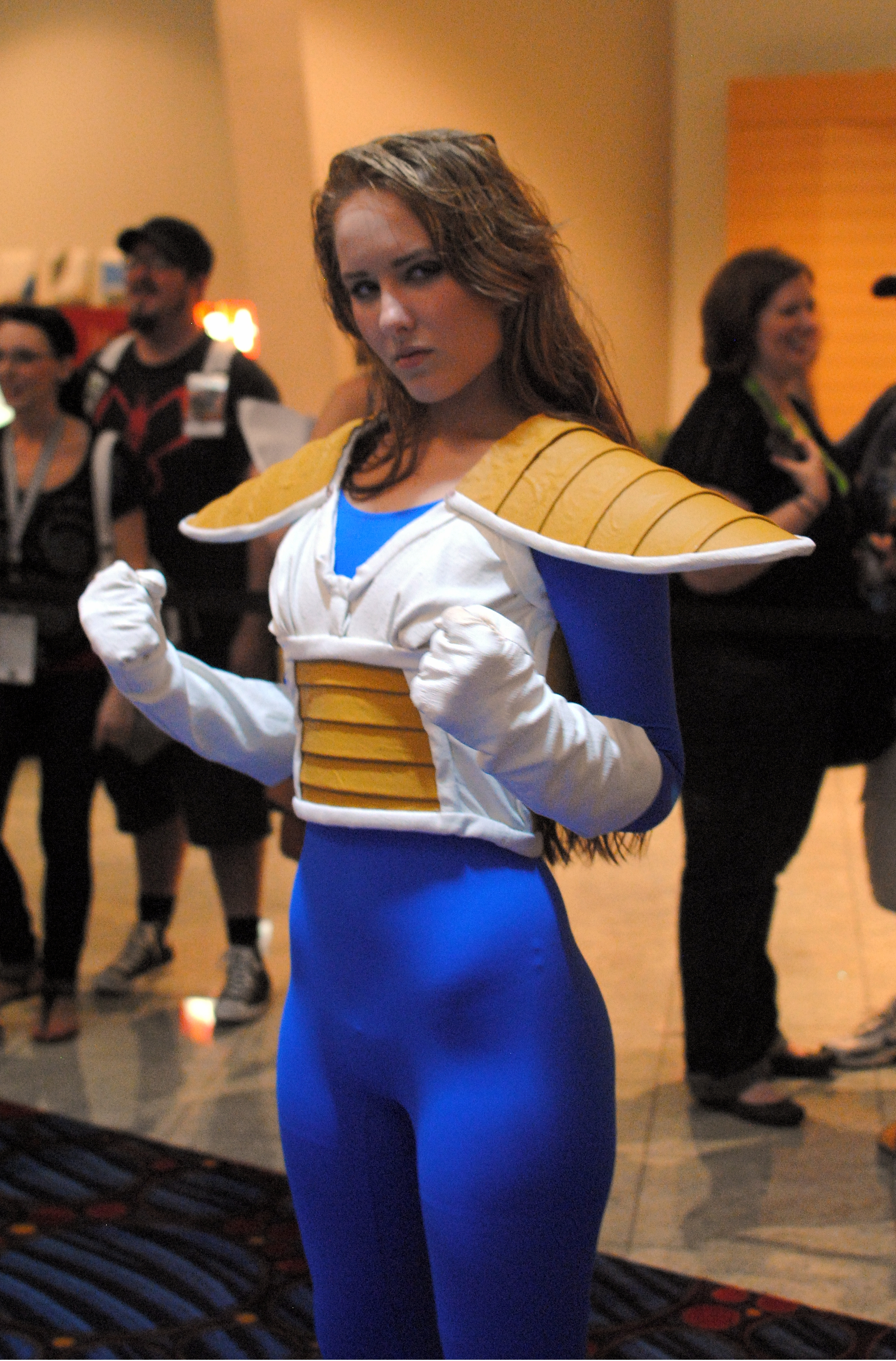 Dragon Con 2012